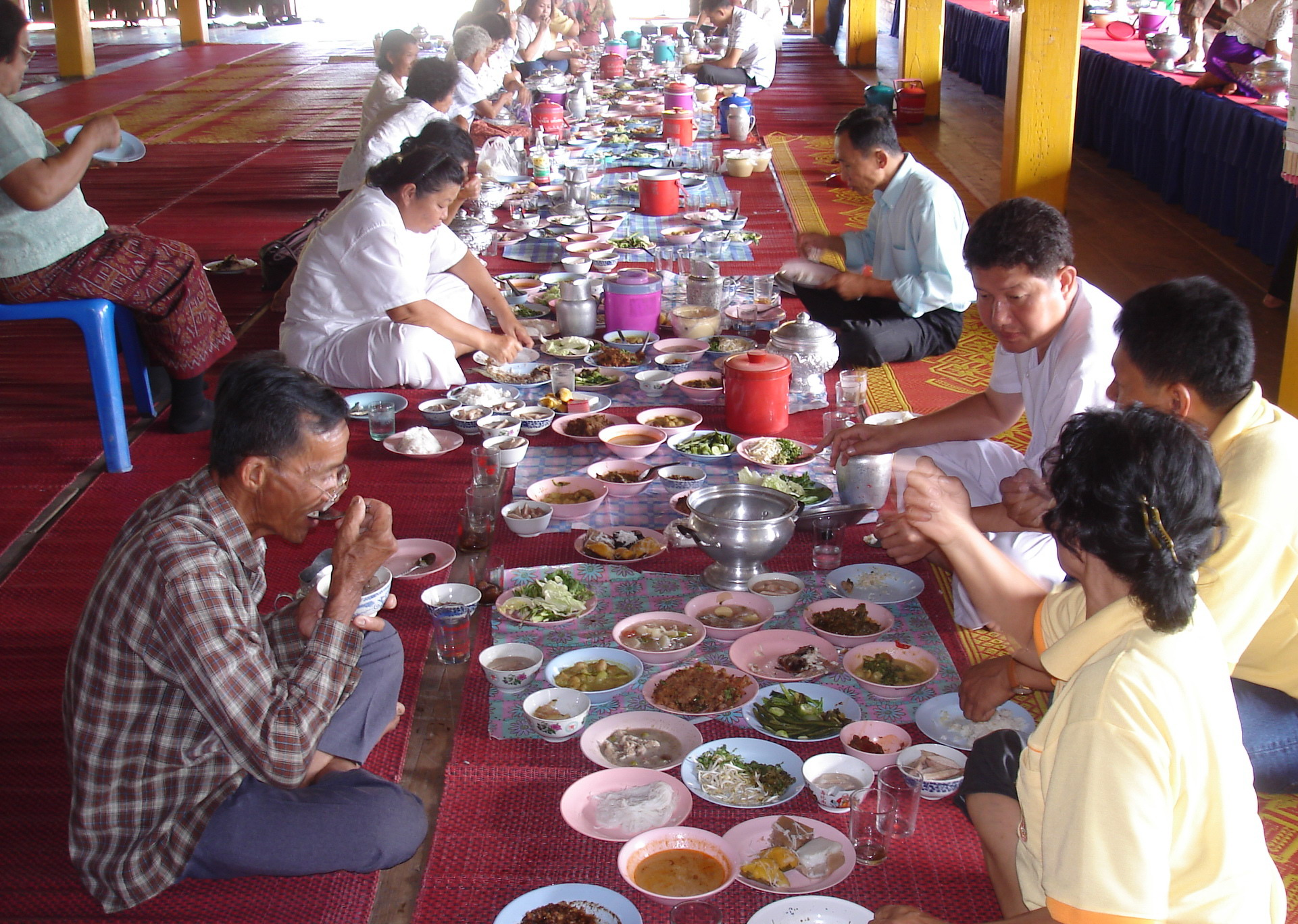 In Uttaradit, Thai food.